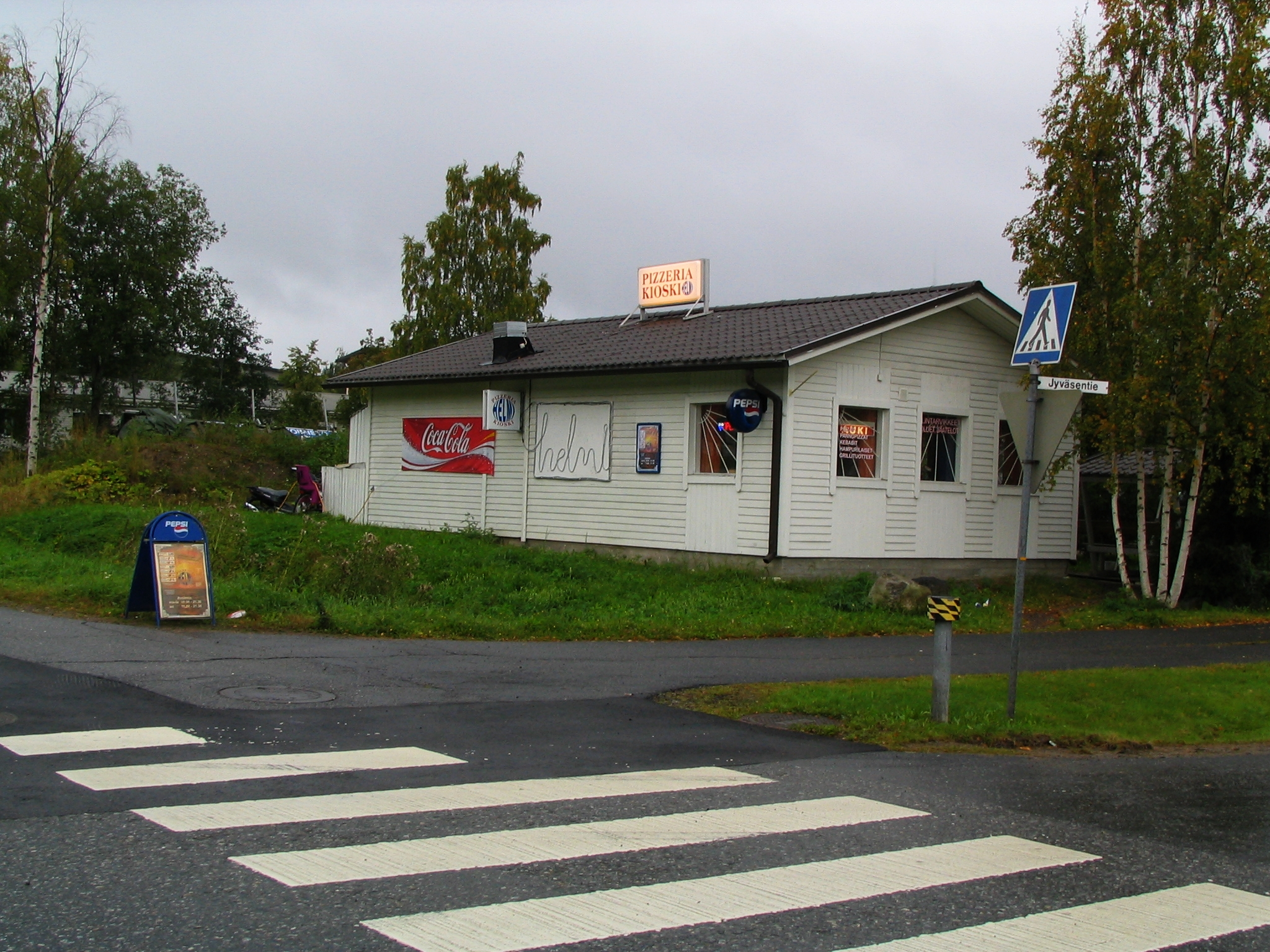 Grill of Ristonmaa. Jyväksentie 1, Jyväskylä, Finland